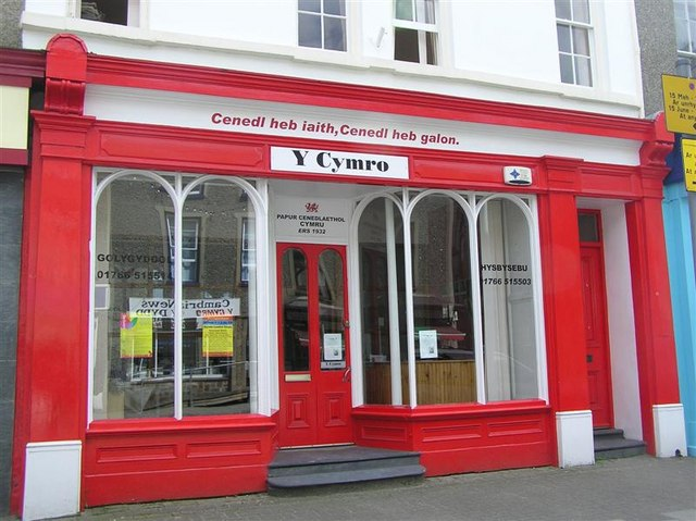 Y Cymro, Porthmadog. Y Cymro (=The Welshman) is a Welsh language national weekly paper. Previously it shared with Cambrian News (which is one of the local weeklies) whose reflection can be seen across the road The Welsh above the window is the traditional saying "A nation without a language is a nation without a heart"